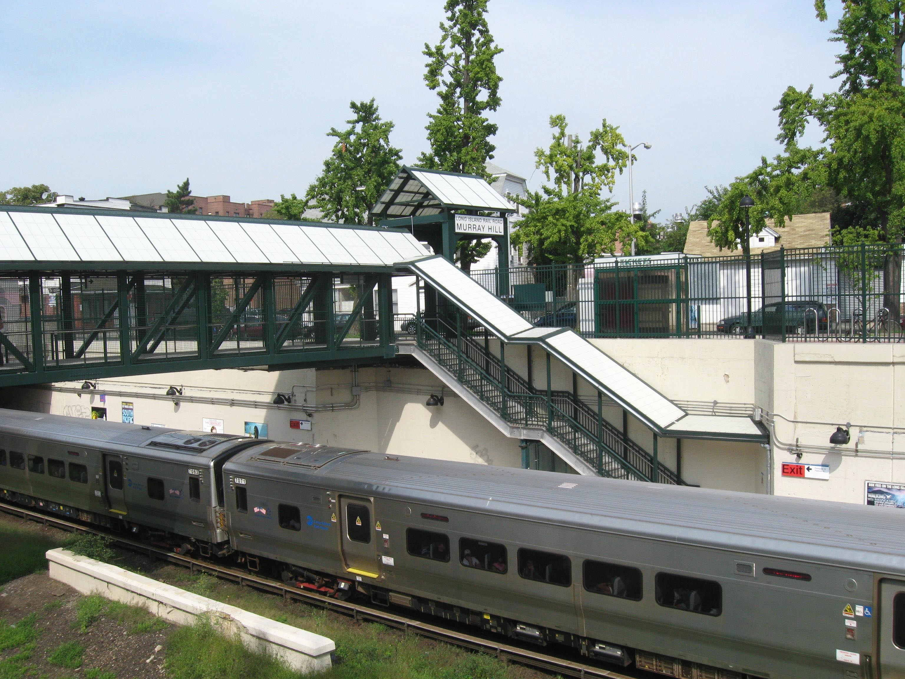 Looking northwest and down into Murray Hill (LIRR station) on a mostly clear late morning